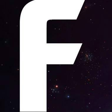 Futurism logo